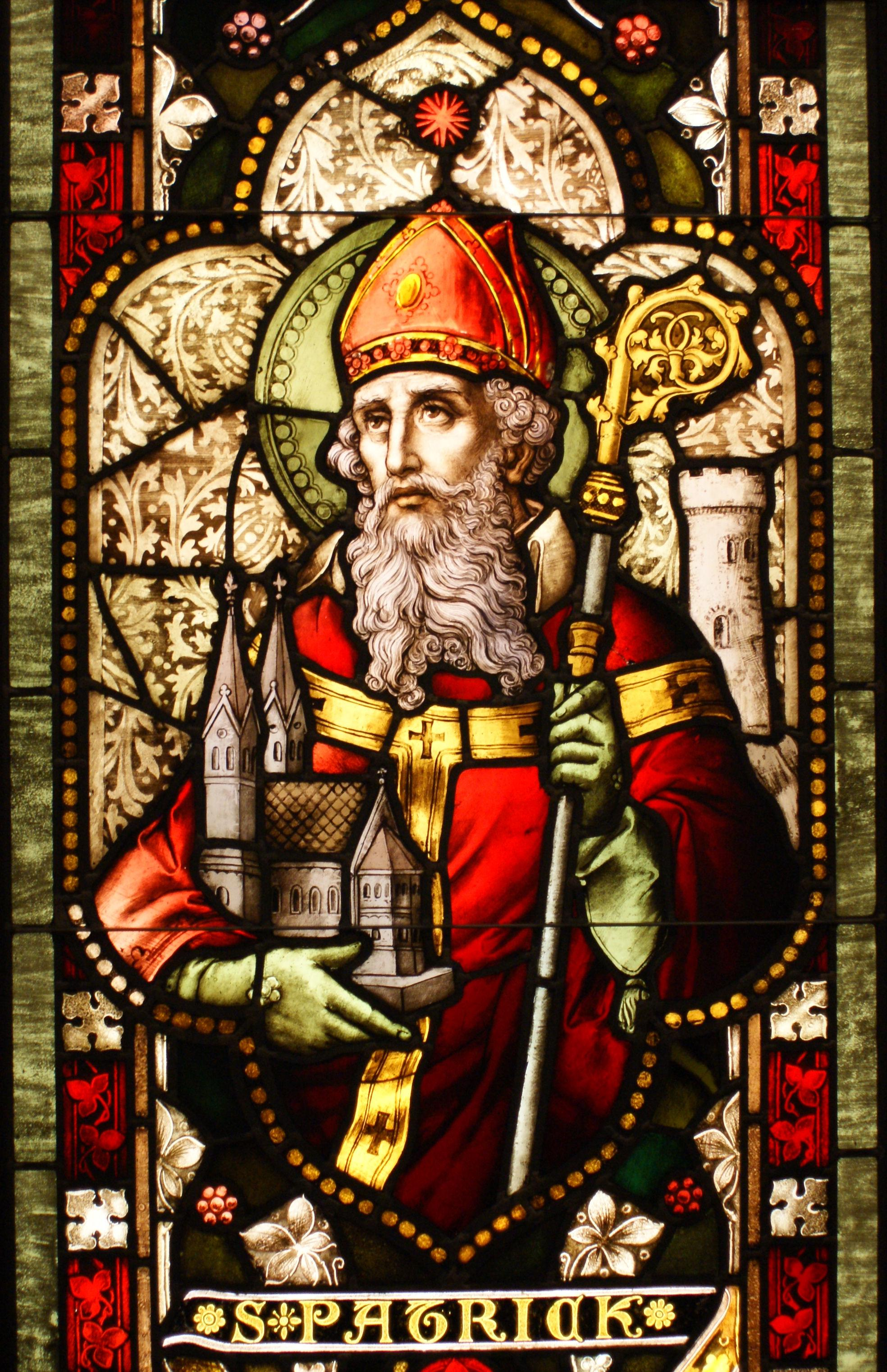 Saint Patrick stained glass window from Cathedral of Christ the Light, Oakland, CA.St. Patrick